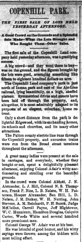 Copenhill Park, news article from Atlanta Constitution 1890